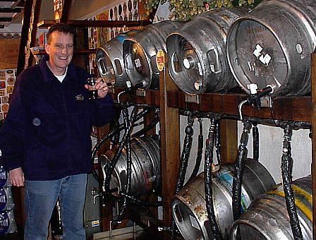 Gareth Jones, ex-manager of the King & Barnes brewery shop, in front of the cask beers he sells at the Beer Essentials shop in Horsham. Picture taken late 2004.